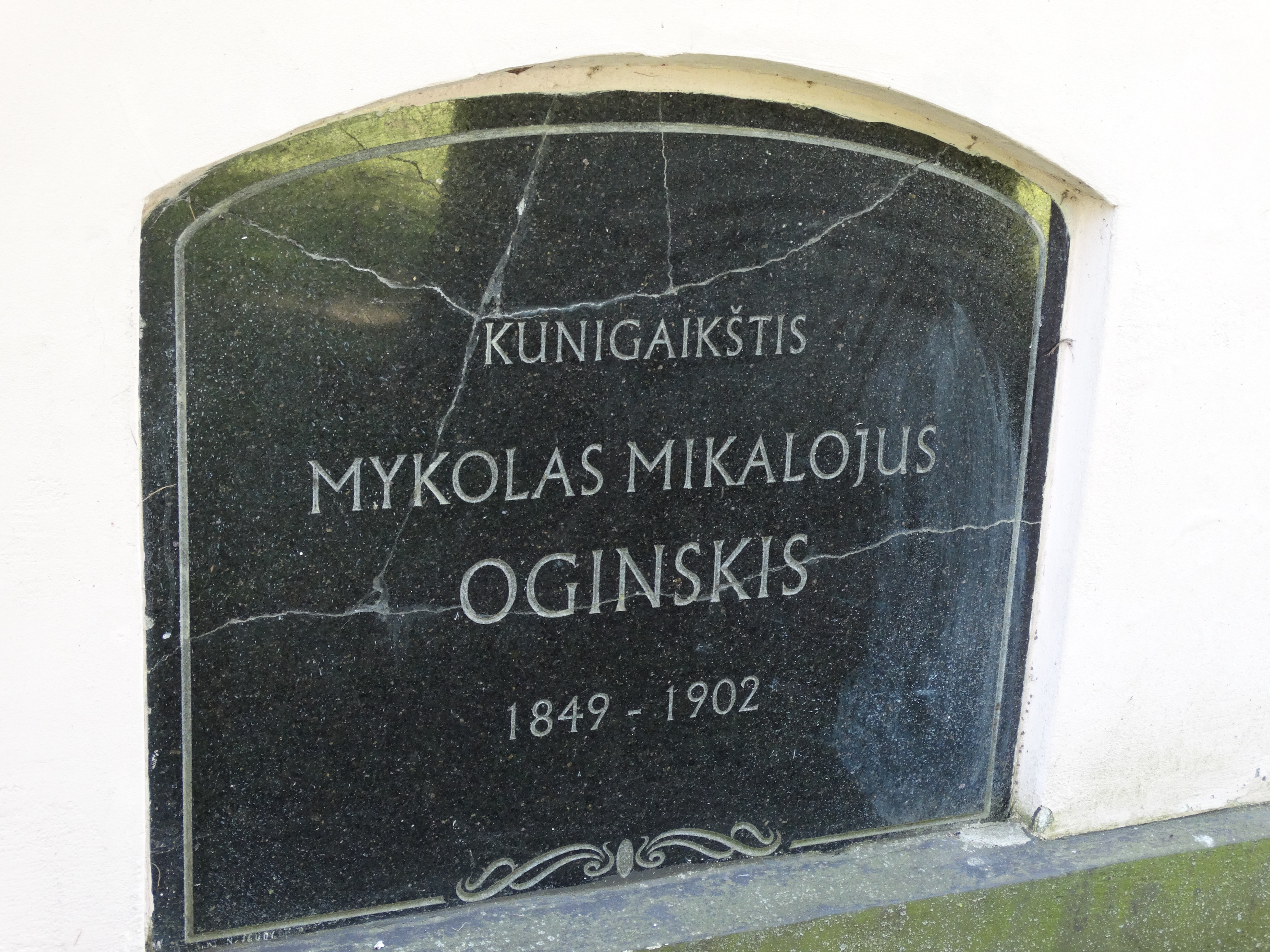 Ogiński family chapel, memorial plaque, Rietavas, Lithuania